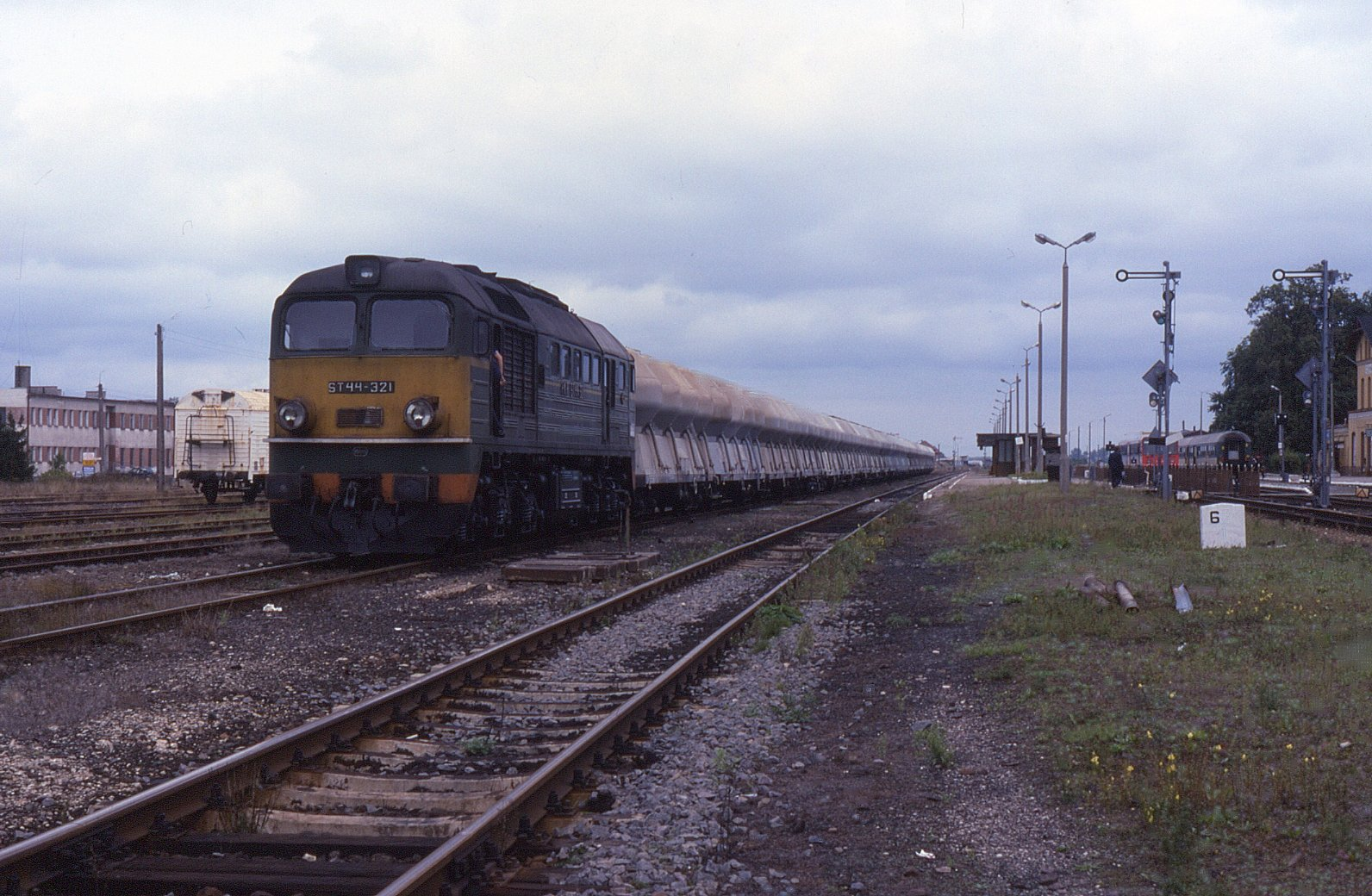 ST44-321 seen on a freight at Czersk on 15 September 1995.